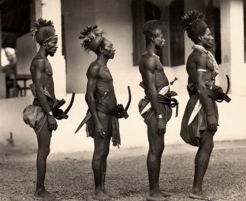 Boa Elders